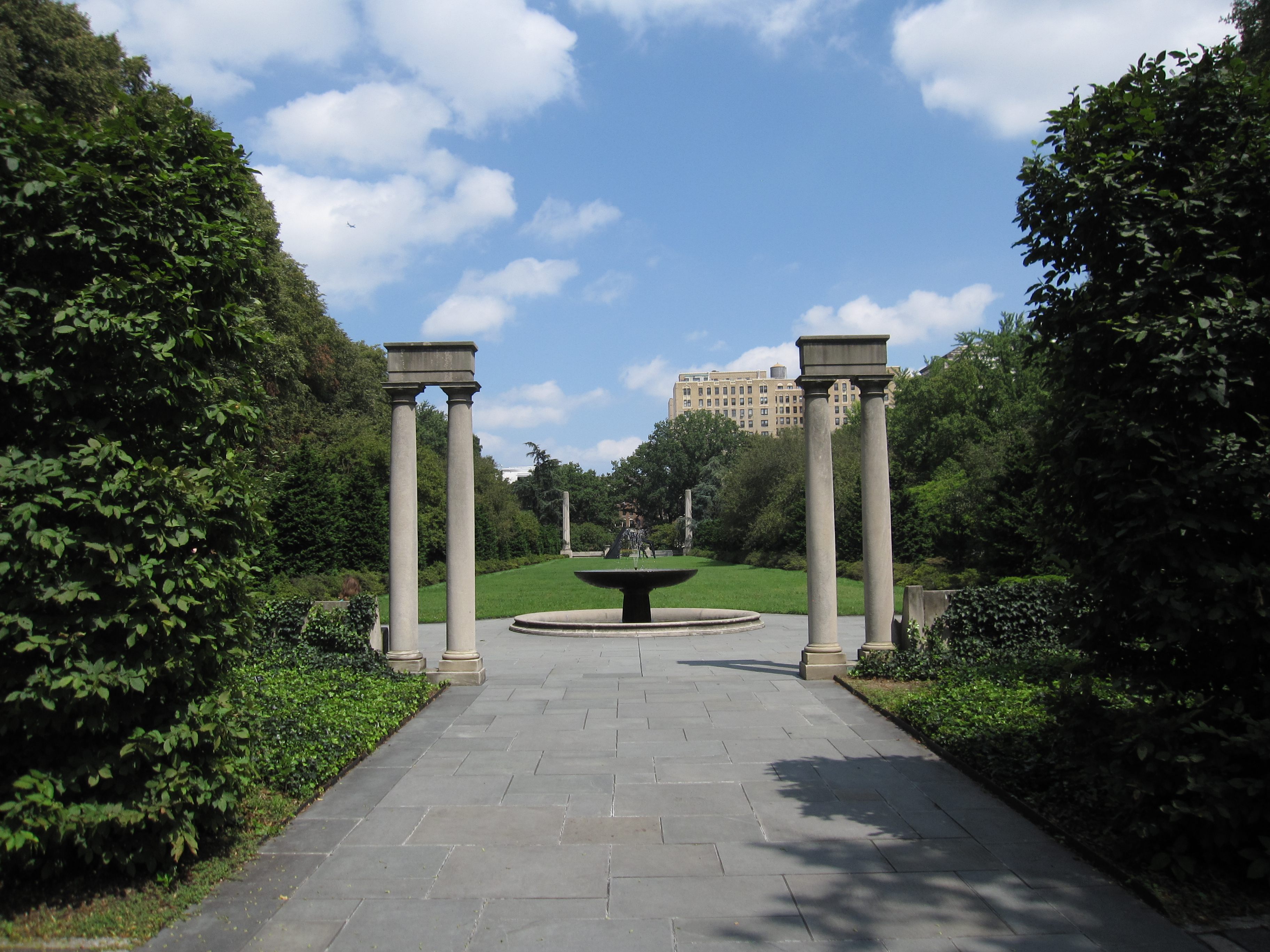 Brooklyn Botanic Garden